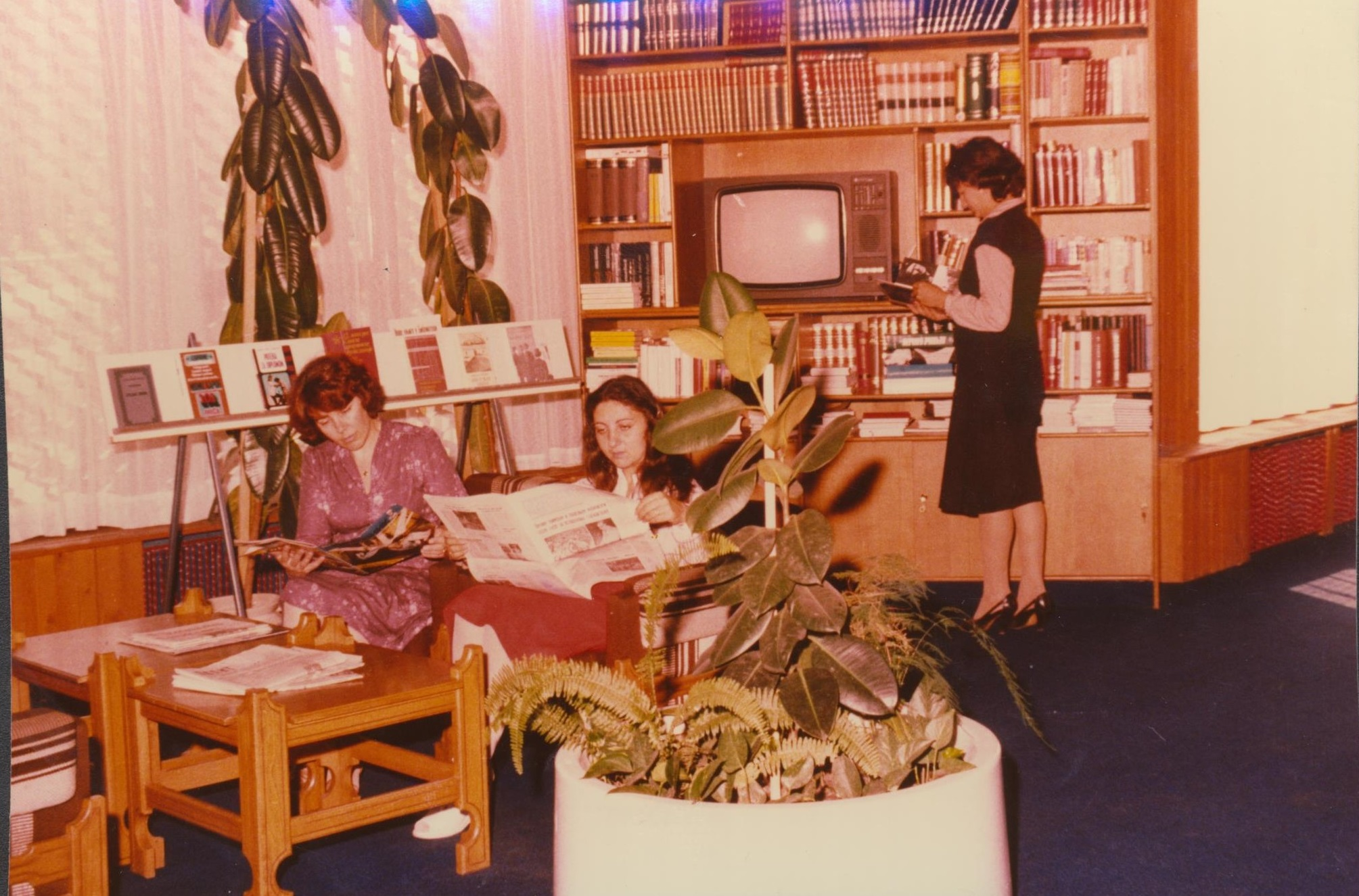 Library in Prvi Maj Pirot